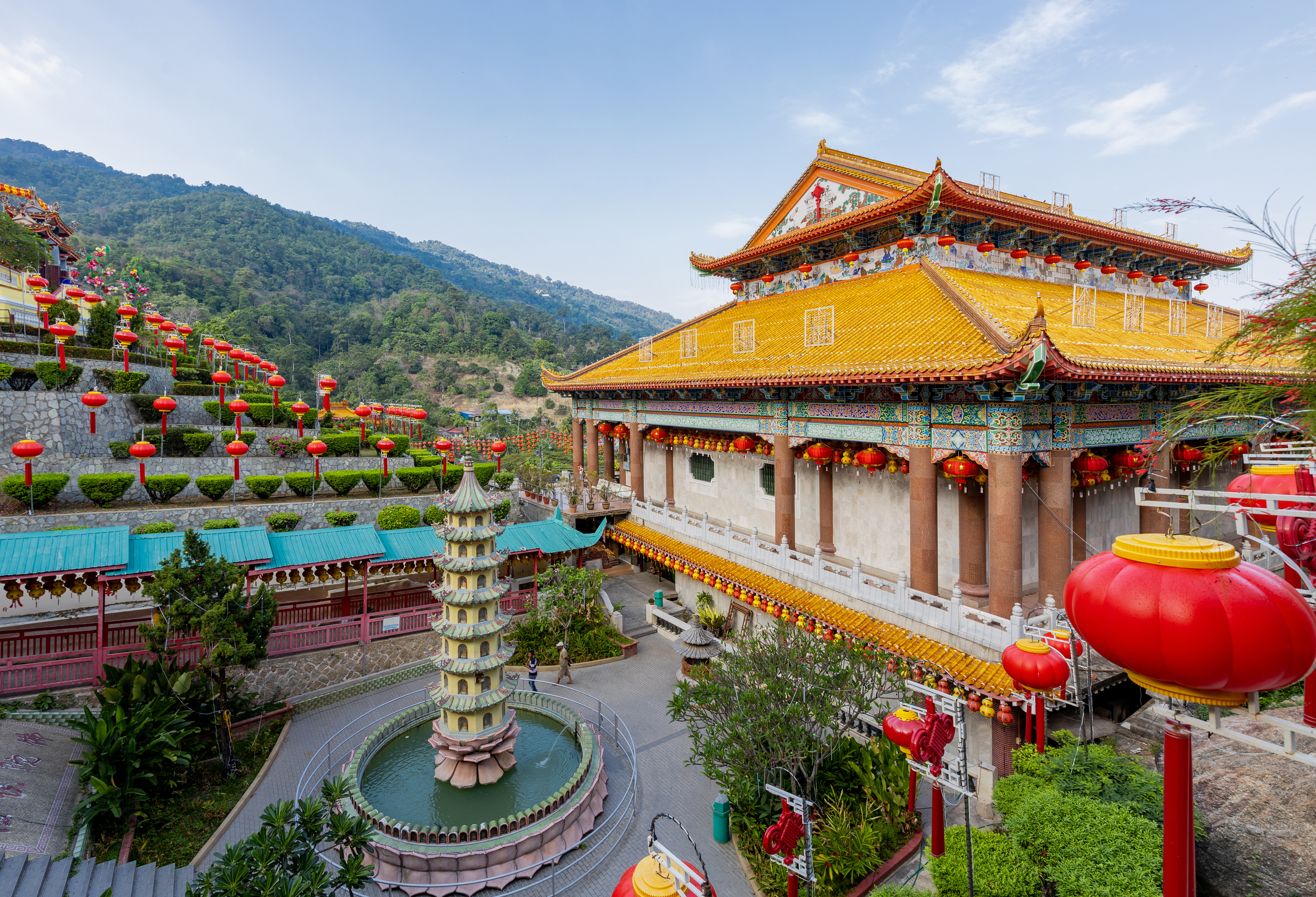 The Kek Lok Si Temple is a Buddhist temple situated in Air Itam, Penang, Malaysia. It is the largest Buddhist temple in Malaysia.